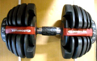 Counterfeit gym weights